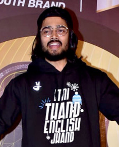 Bhuvan Bam at the launch of MTV Unplugged Season 8